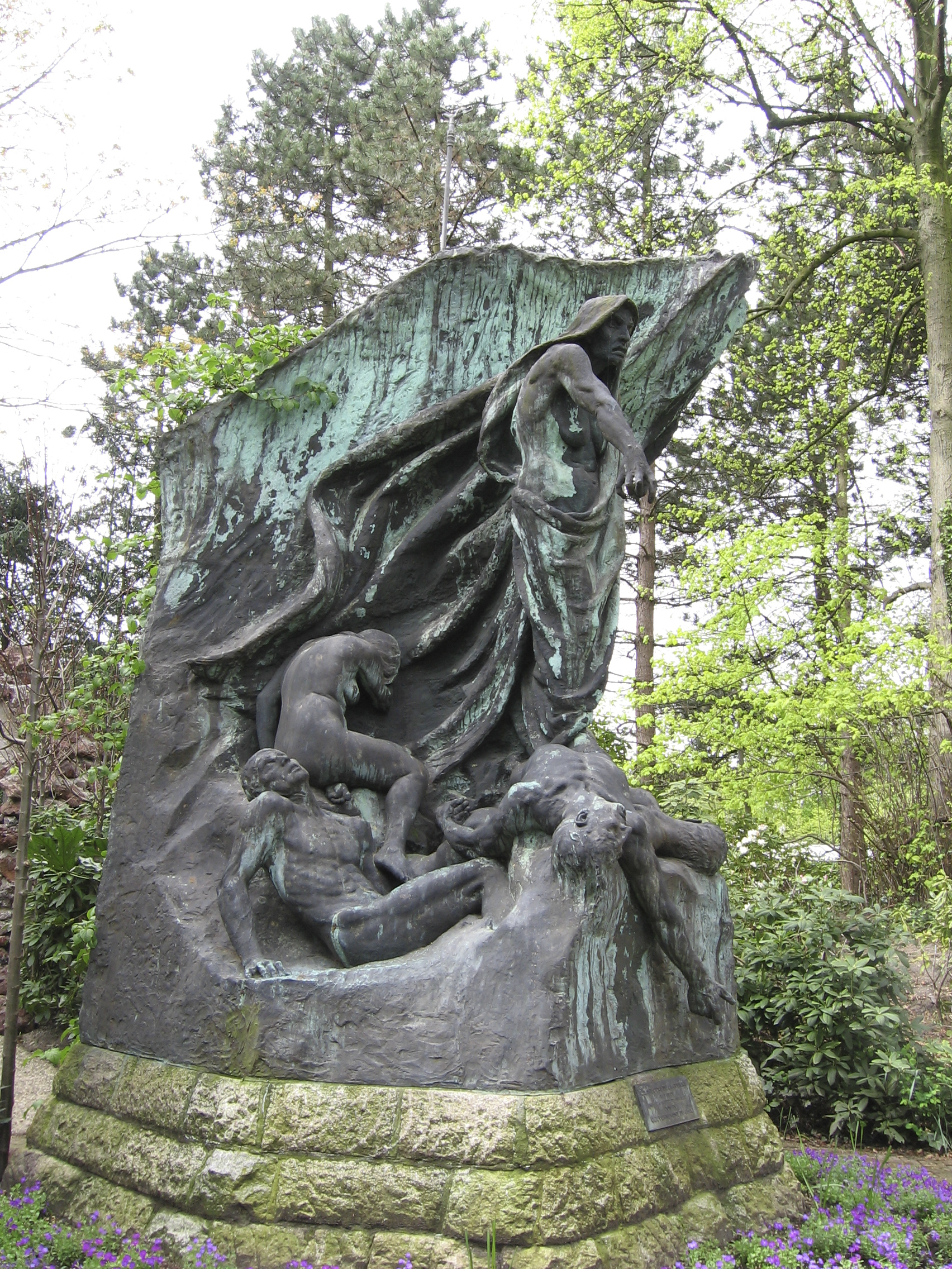 Sculpture Spectre de la Guerre by Rebeca Matte (1875–1929) in the garden of the Peace Palace at The Hague. The artwork was commissioned in 1908 and installed in 1914 as a gift from the Chilean government.